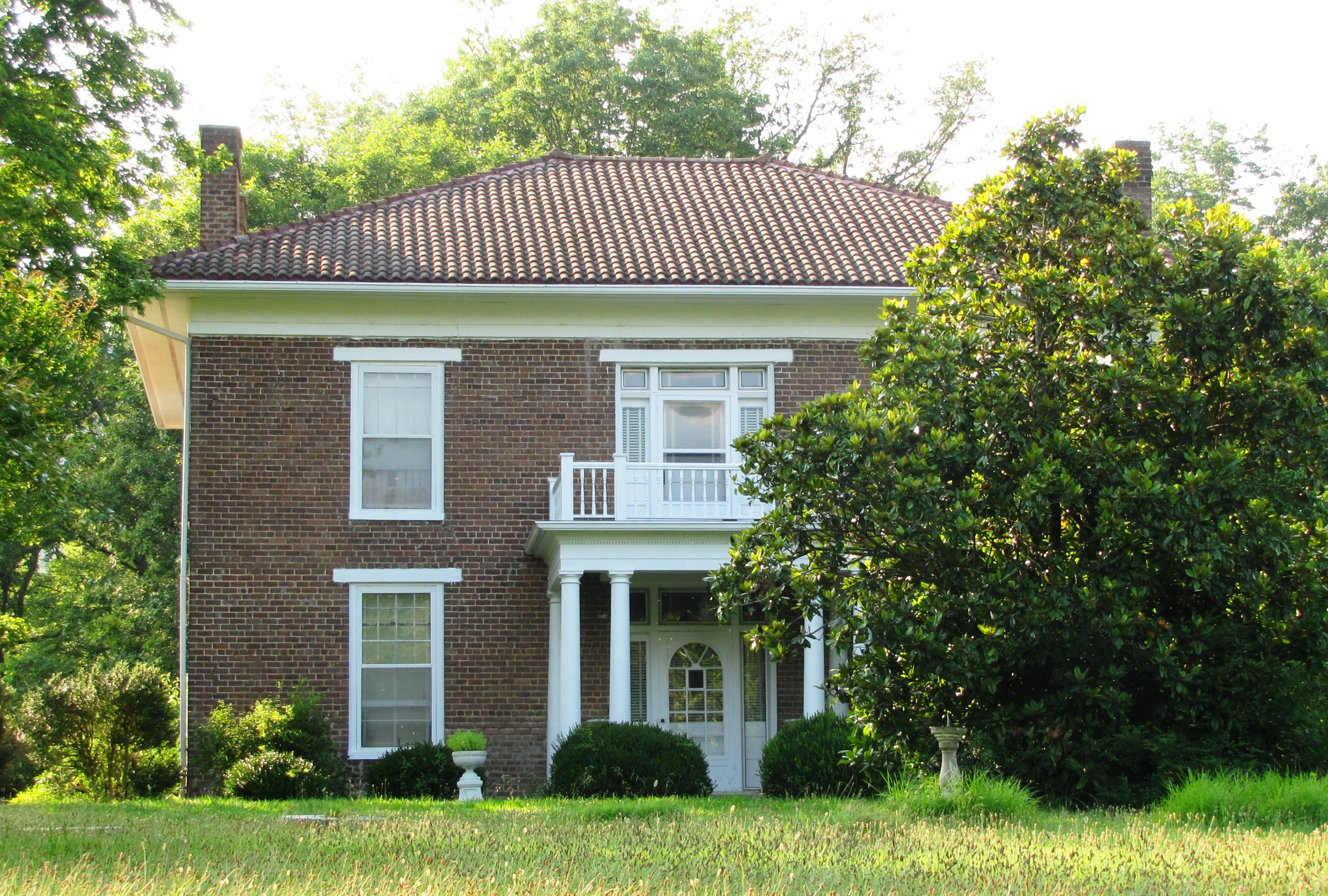 Chesterfield (9625 Old Rutledge Pike) in the Skaggstown community in Knox County, Tennessee, USA. Built in 1838 by physician G. W. Arnold, this house is now listed on the National Register of Historic Places.